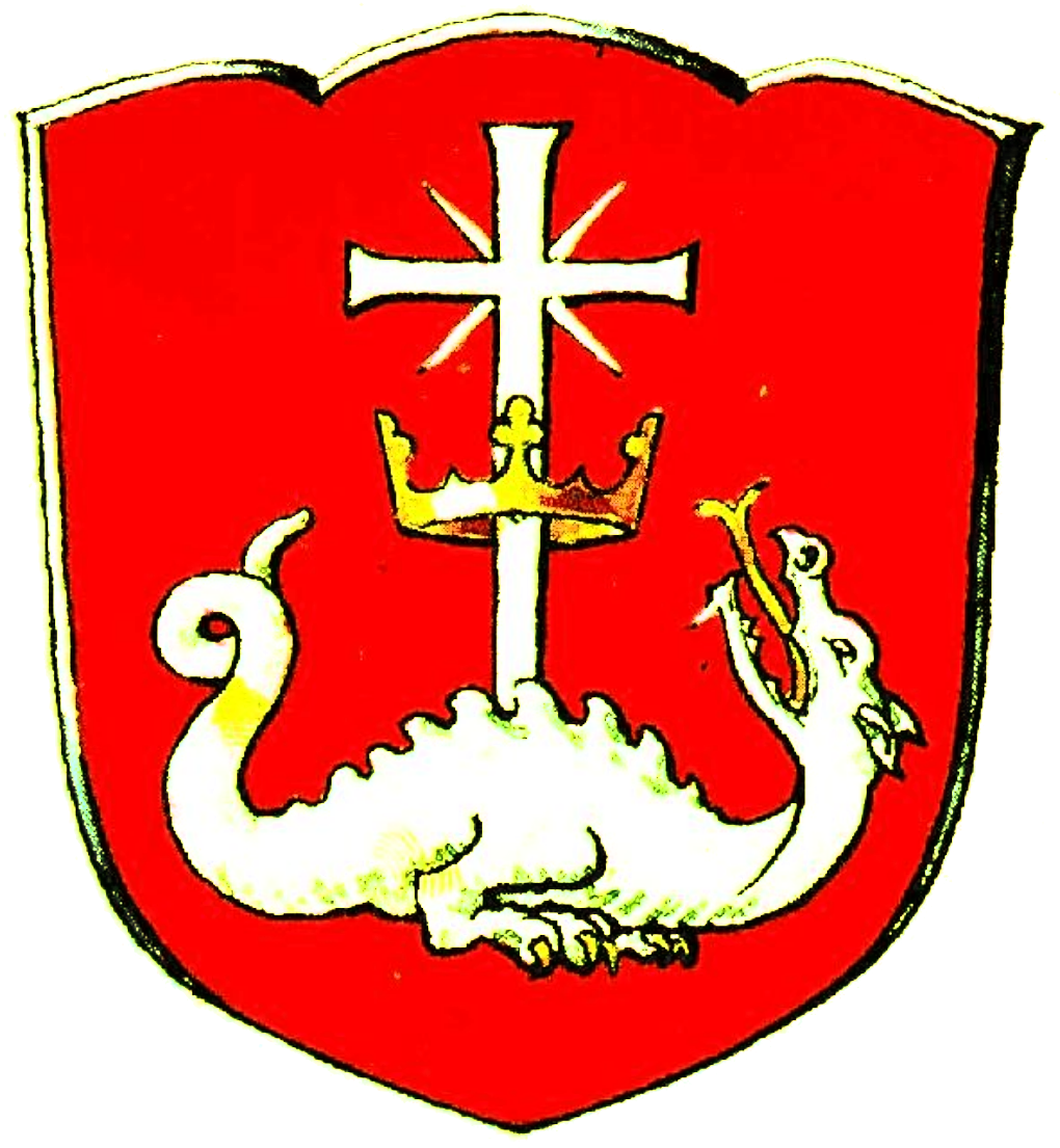 Coat of Arms of Margetshöchheim